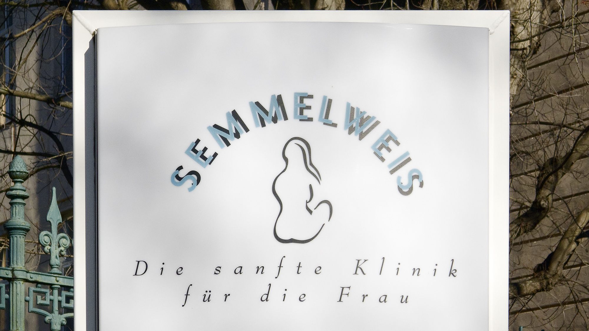 Hospital Semmelweis-Frauenklinik in Vienna Währing